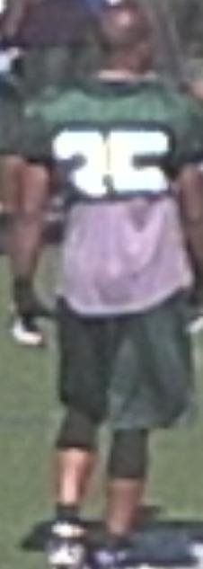 Rashad Barksdale at the New York Jets 2009 training camp.